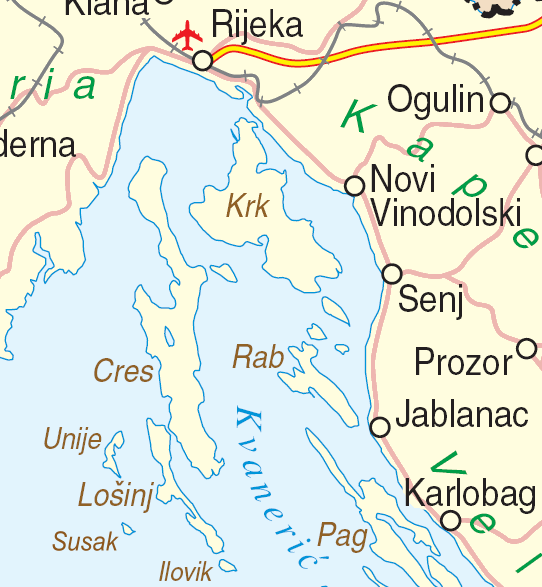 Map of the Norther Croatian Adriatic Sea, Kvarner Bay